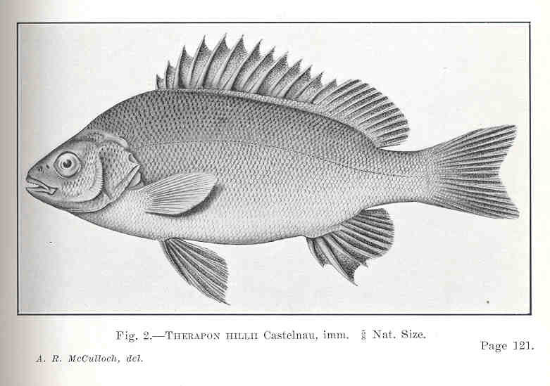 Therapon hillii Castelnau, imm. Subject: Teraponidae Tag: Fish